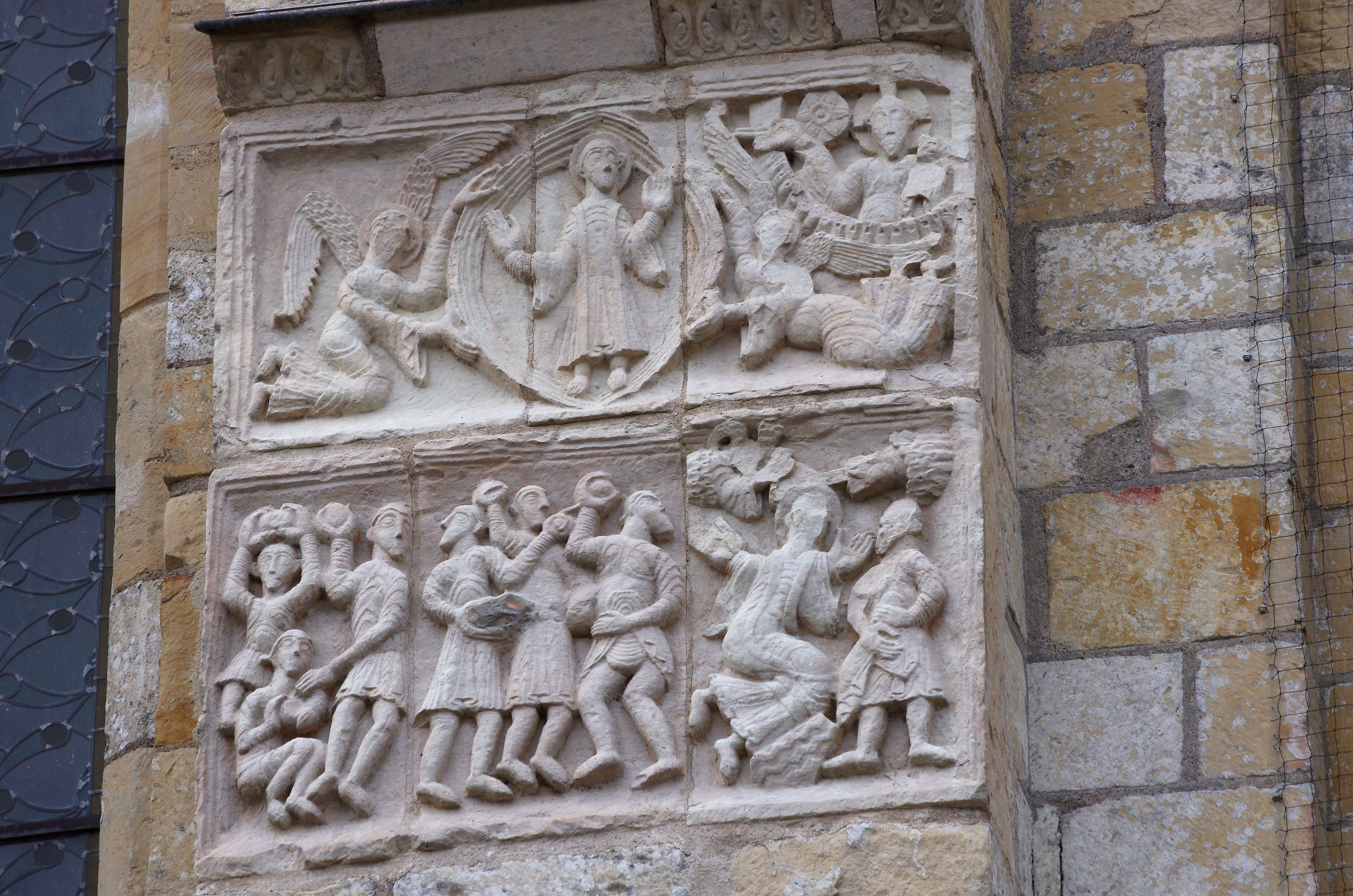 Abbaye de Saint-Benoît-sur-Loire, Sculptures du mur Nord de la tour-porche